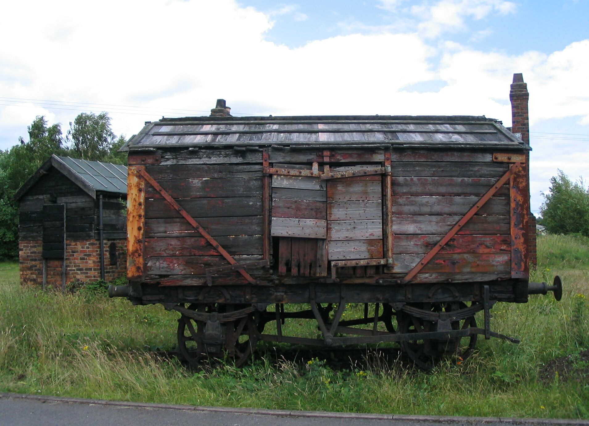 Railway van for carrying salt, at the Lion Salt Works beside the Trent and Mersey Canal in Ollershaw Lane, Marston, Northwich, Cheshire, England